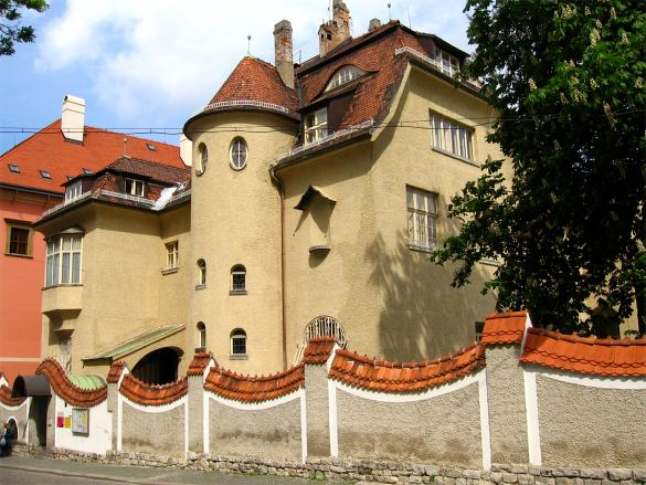 The Primavesi Villa in Olomouc - front wiew